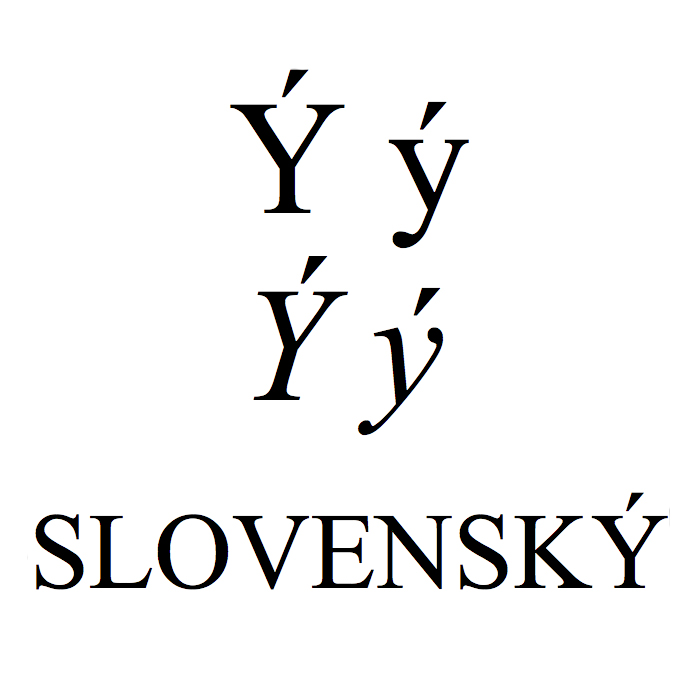 latin small and capital letter y with acute, and small caps ‘slovenský’